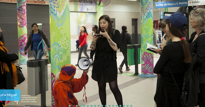 Poet reading in the Buenos Aires subway